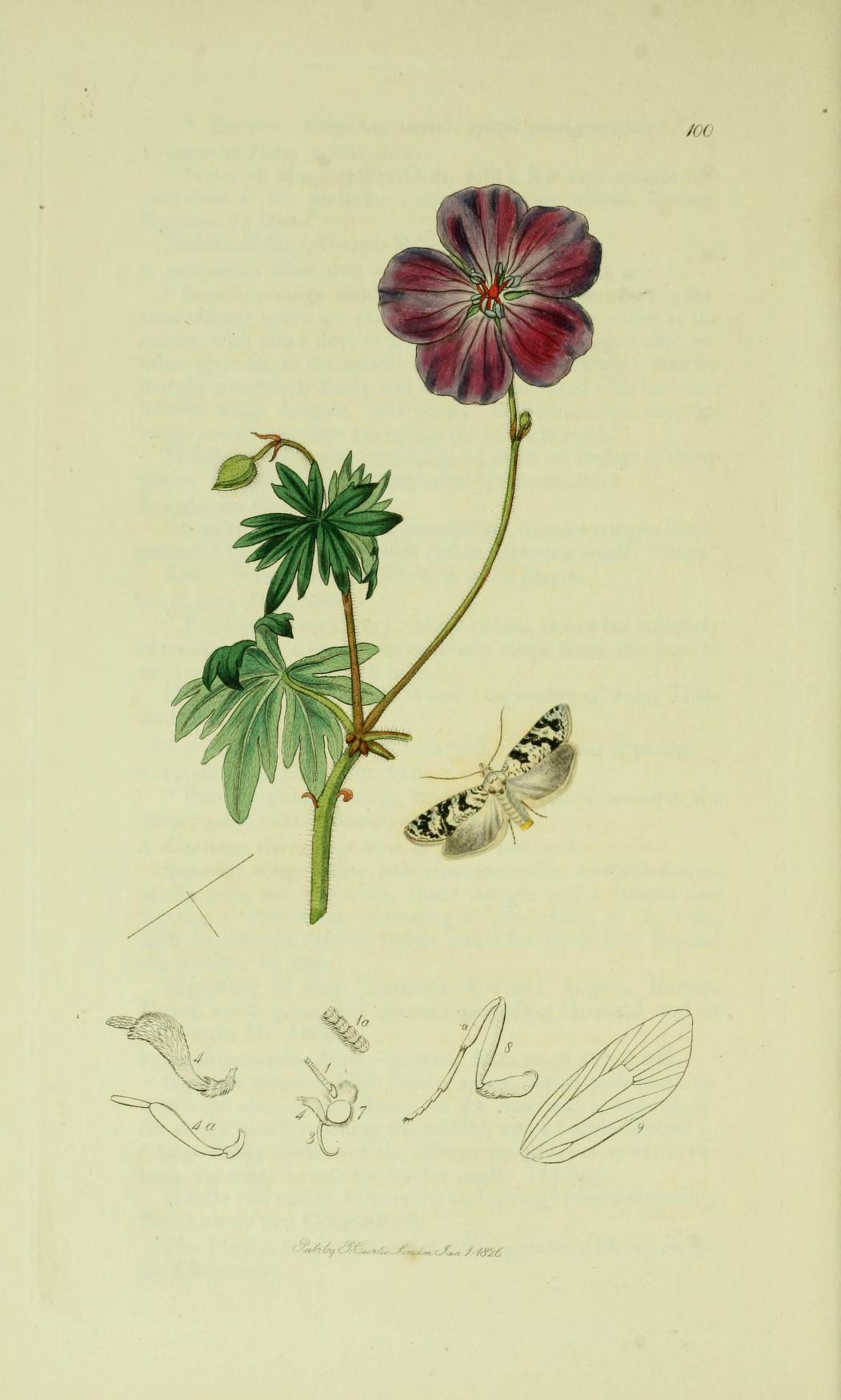 An illustration from British Entomology by John Curtis. Lepidoptera: Cnephasia pellana or Eana penzeana (Pentz’s Tortrix).